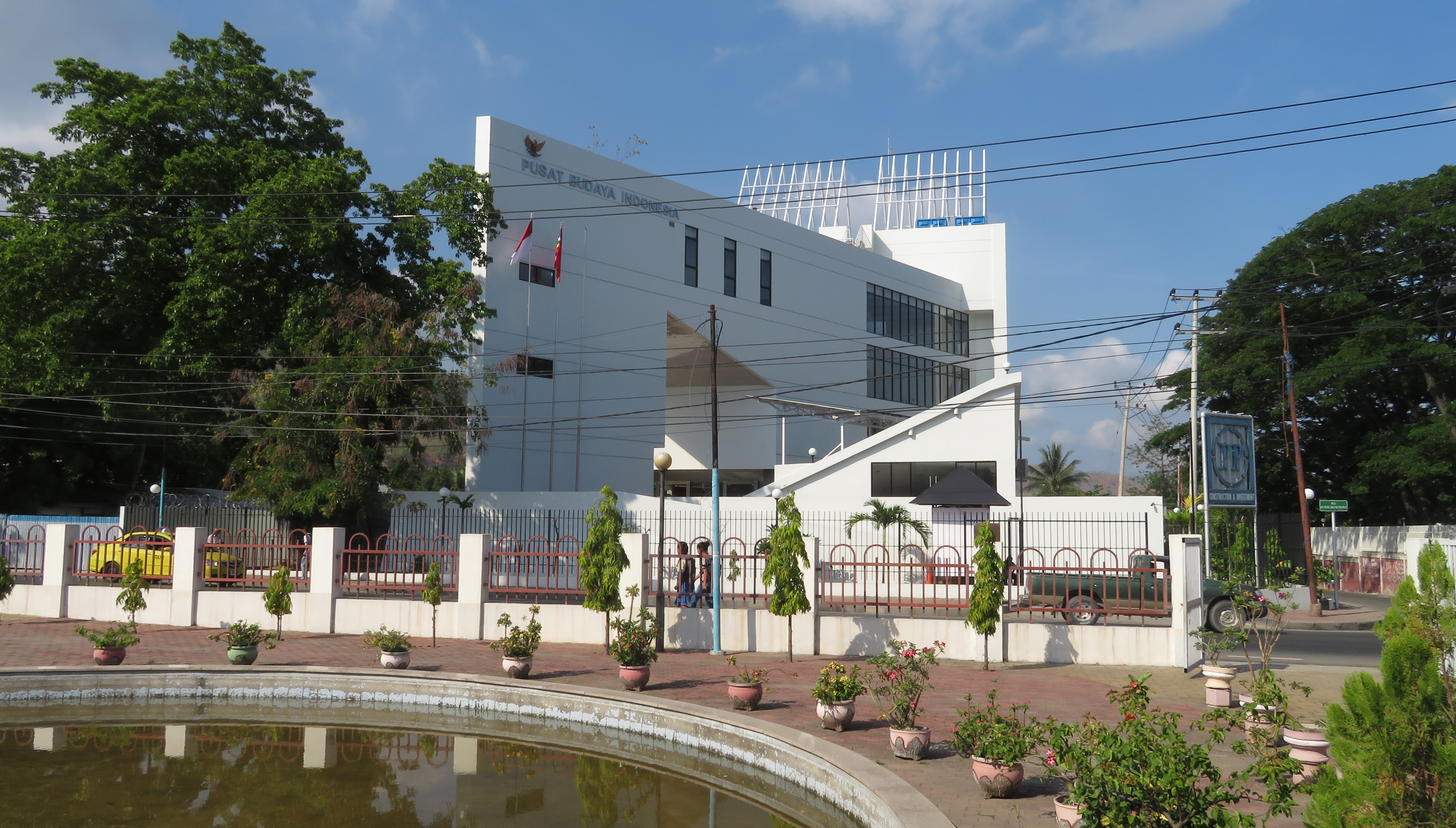 Indonesian Cultural Center, Dili, East Timor